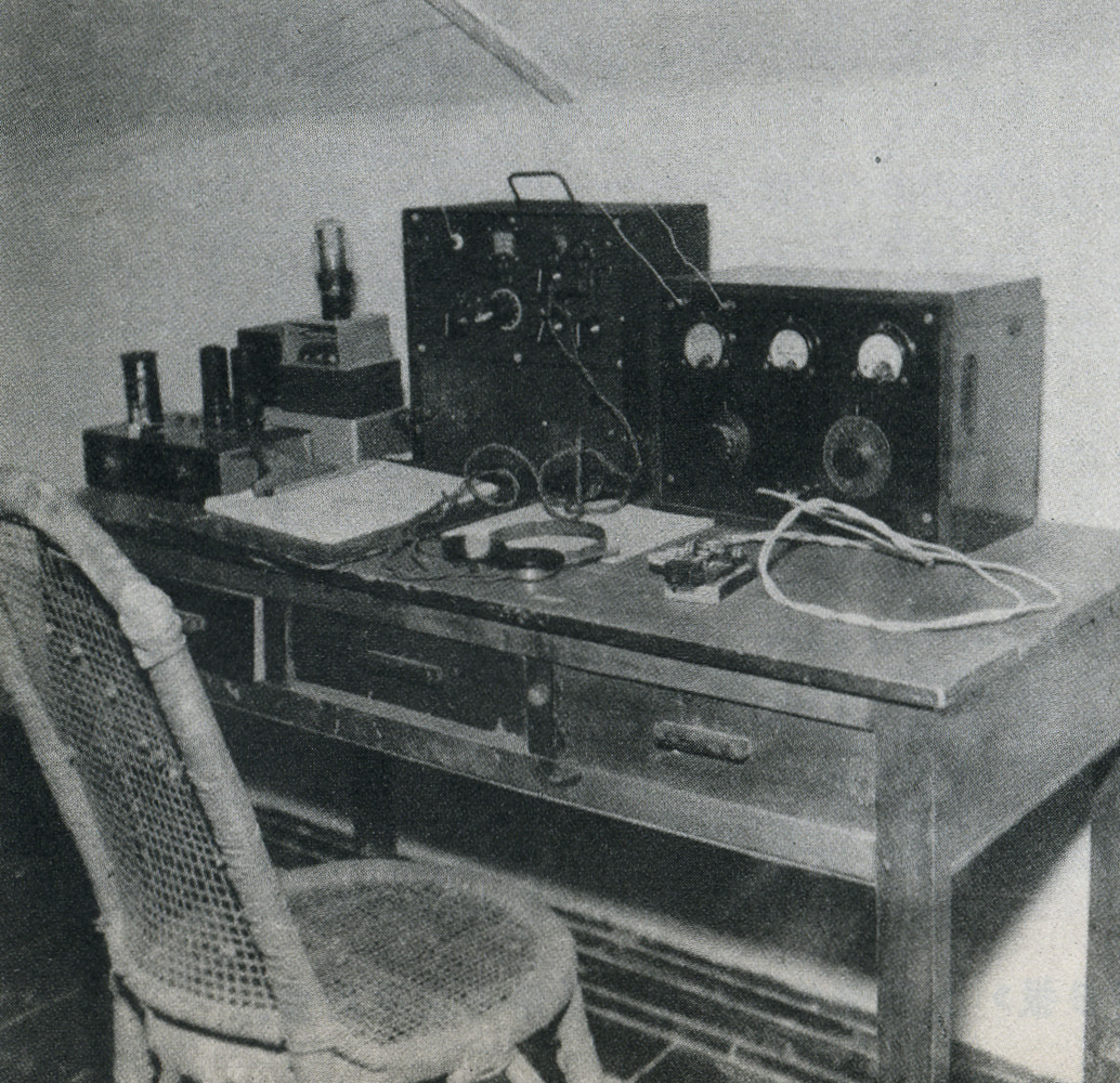 The chair in which Mao remotely arranged the civil war during Chungking Negotiation